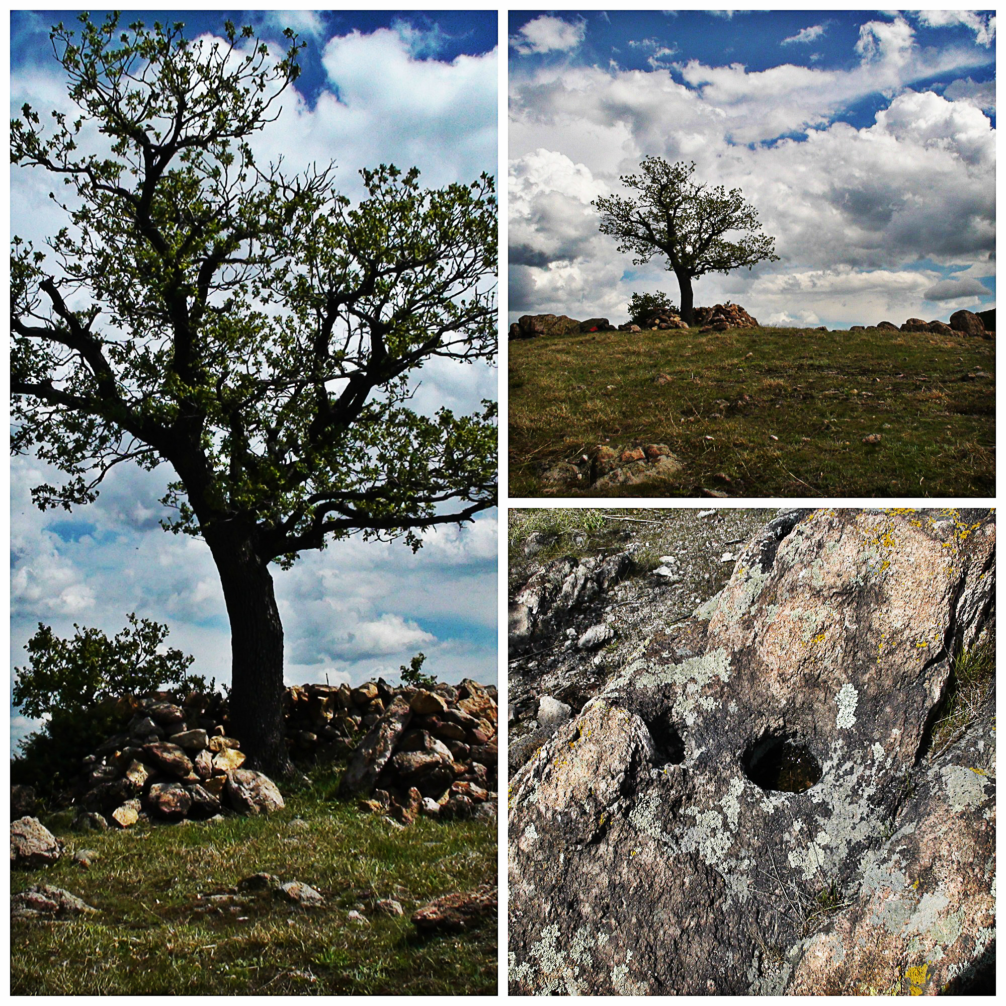 Gradushka_carkva_02